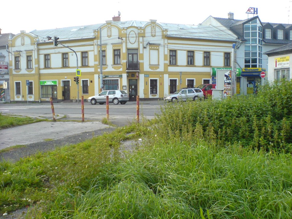 Houses, Ostrava-Hulváky.